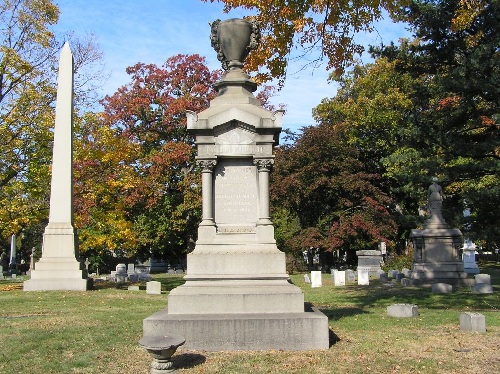 The monument of Rowland Hussey Macy in Woodlawn Cemetery, Bronx, NY